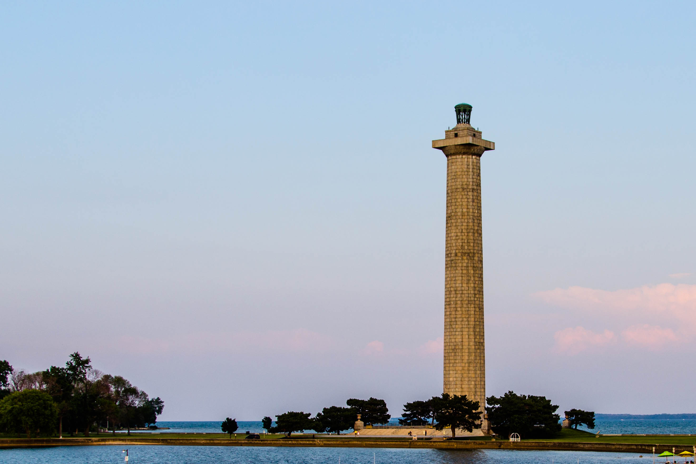 This picture was taken from the harbor area of Put-In-Bay.